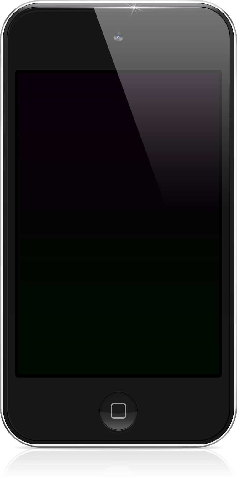 iPod touch 4th generation black screen turning off.